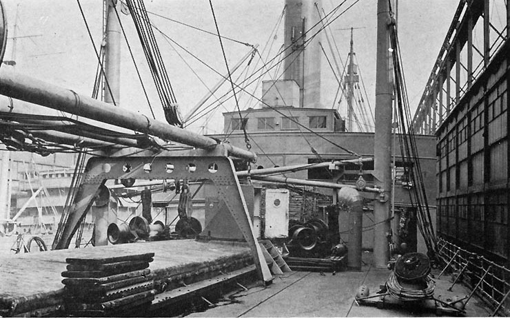 USS Dakotan (ID # 3882) Halftone reproduction of a photograph taken on the ship's foredeck, looking aft toward her bridge, 1919. Note the cargo boom rest over the hatch, wooden hatch covers, winches, paravane on deck in the lower right, and kingposts mounting light cargo booms. This image was published in 1919 as one of ten photographs in a "Souvenir Folder" of views concerning USS Dakotan. Donation of Dr. Mark Kulikowski, 2007. U.S. Naval Historical Center Photograph.